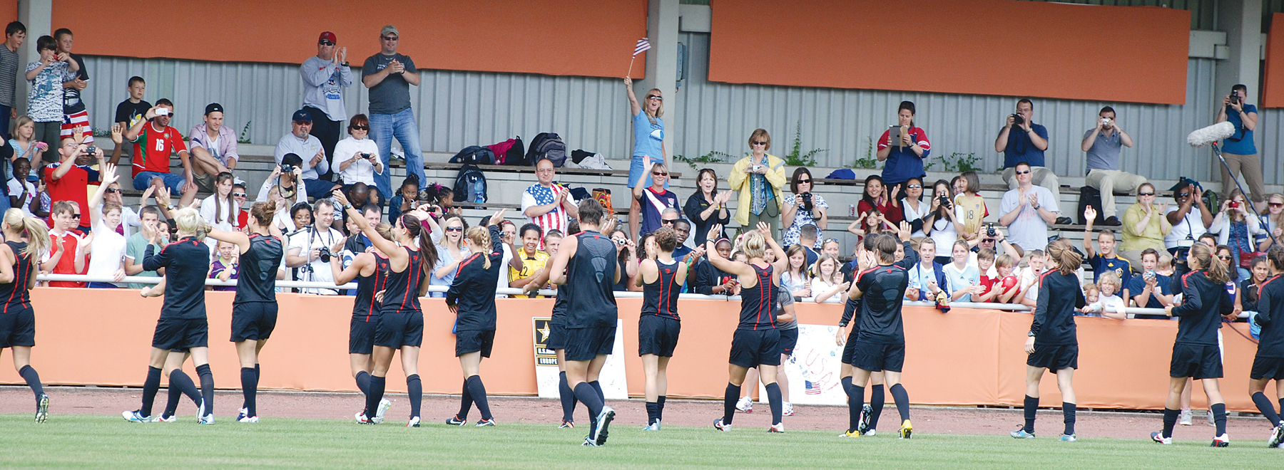 More than 500 Americans from military communities throughout Germany cheer as the U.S. Women's National Team runs out onto the field during a practice June 30, 2011, in Heidelberg, Germany. The practice allowed servicemembers and families the chance to meet the team members and get autographs during the 2011 FIFA Women's World Cup in Germany.